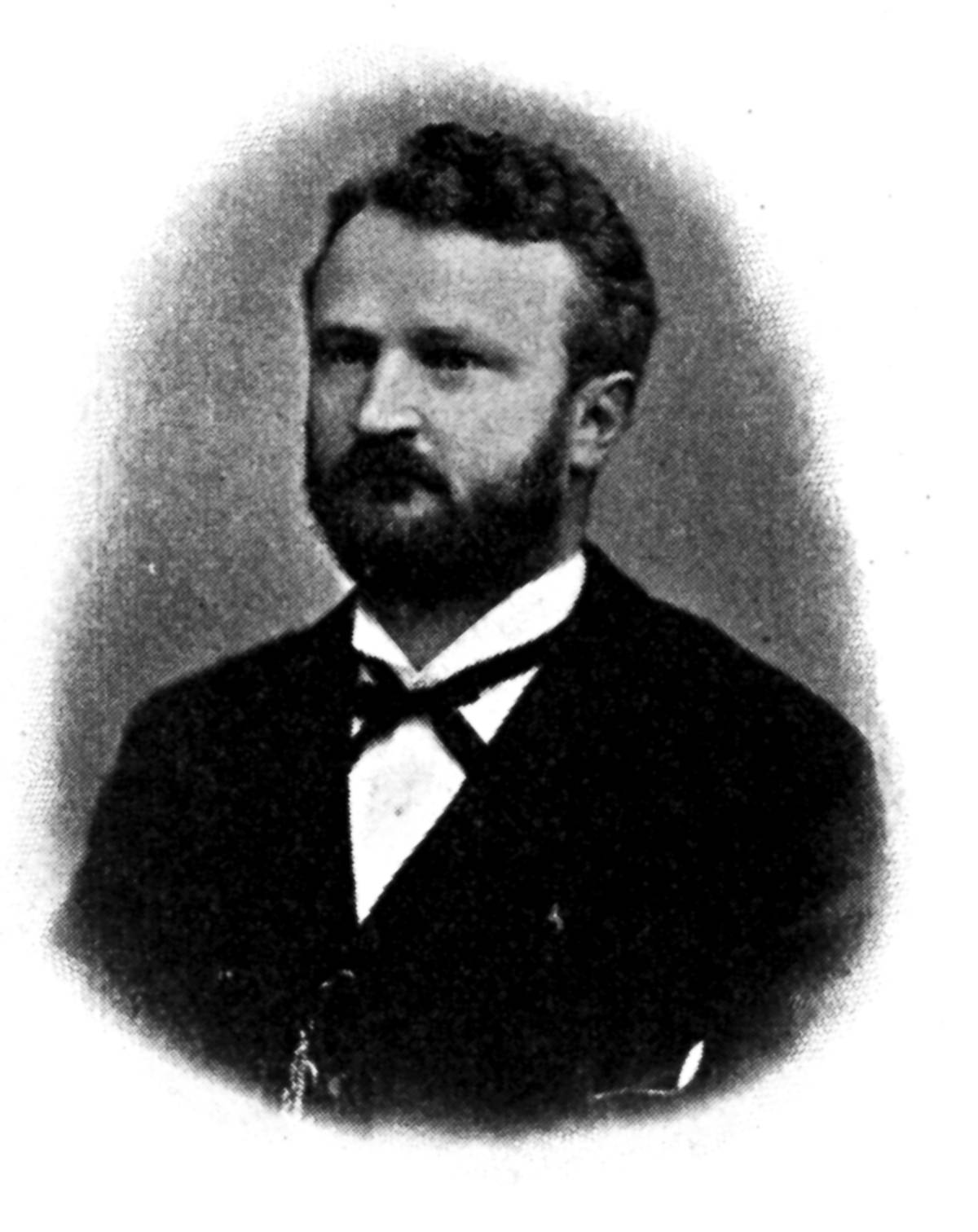 Richard Thoma